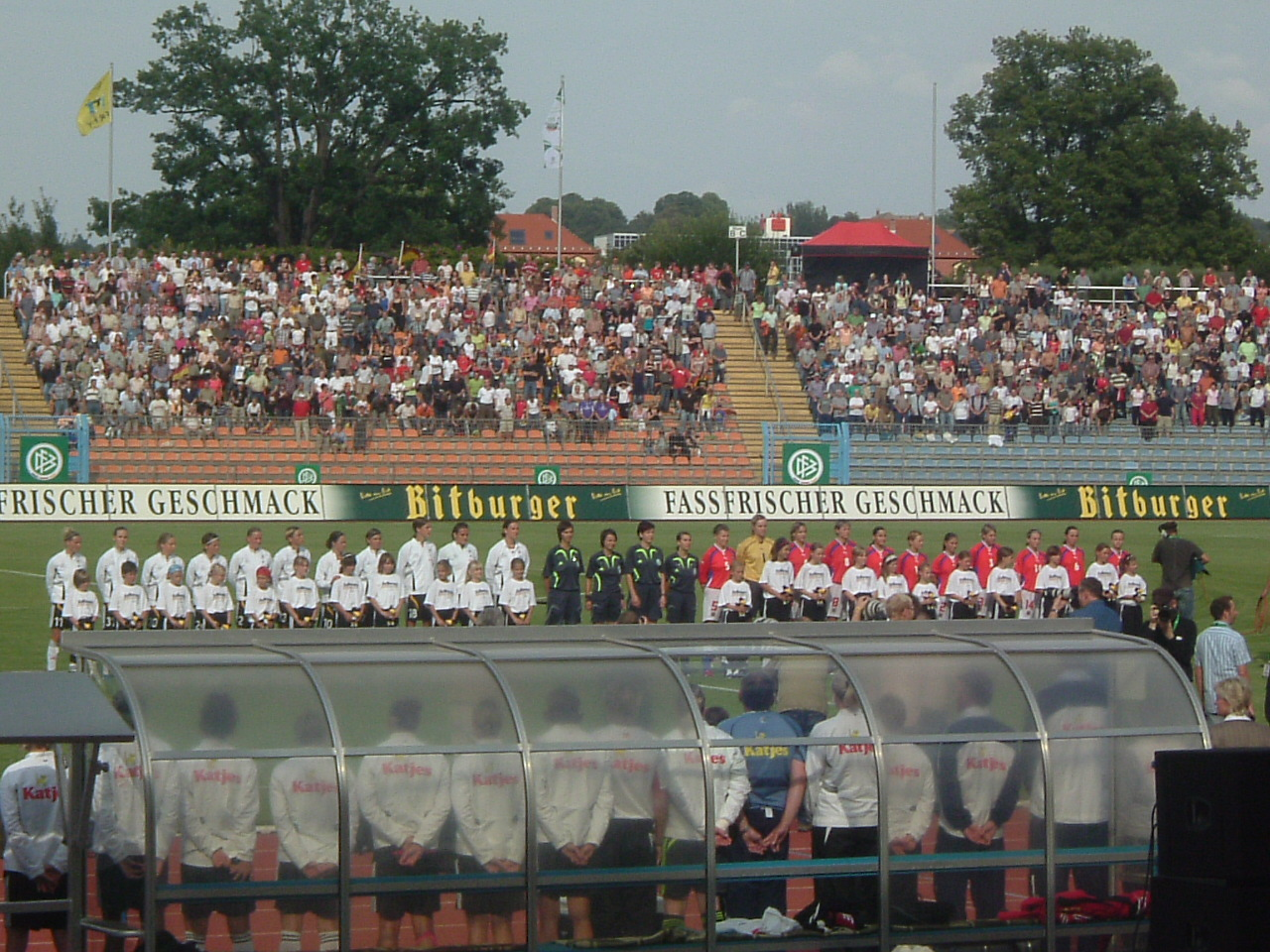 Women's soccer: Germany vs. Czech Republic, 2 August 2007